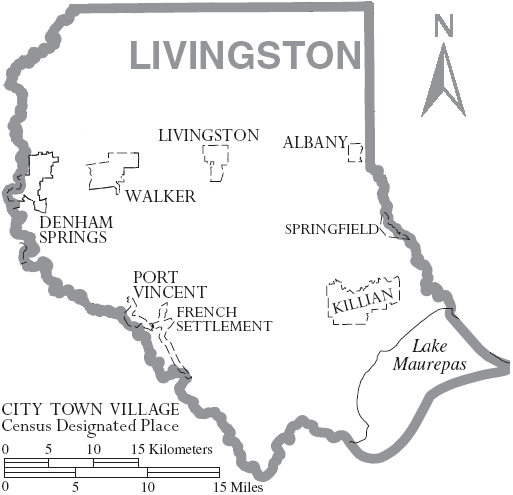 Map of Livingston Parish, Louisiana, United States with municipal boundaries